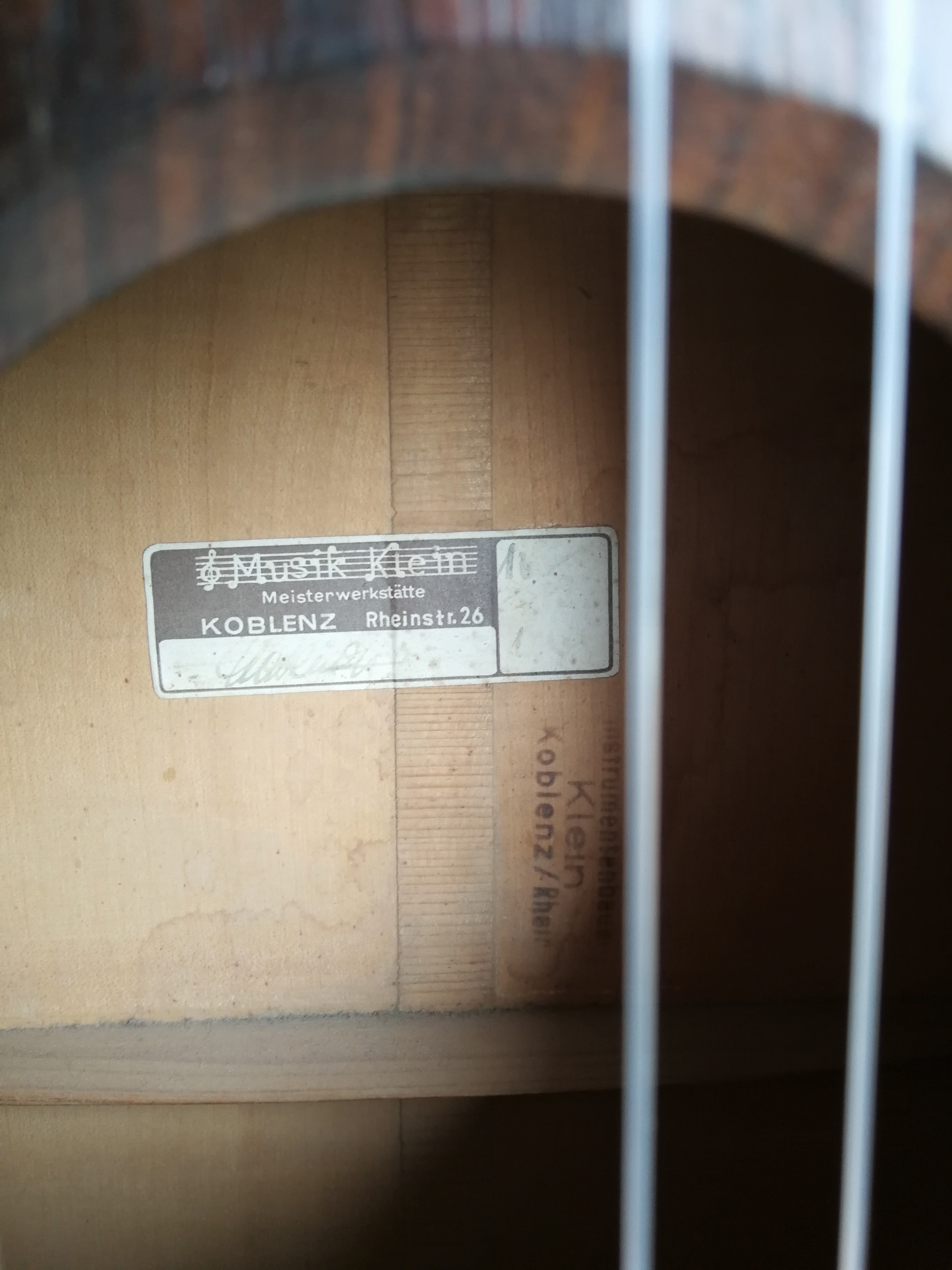 Guitar from Muisk, Klein, Koblenz Germany (Label, inside corpus)